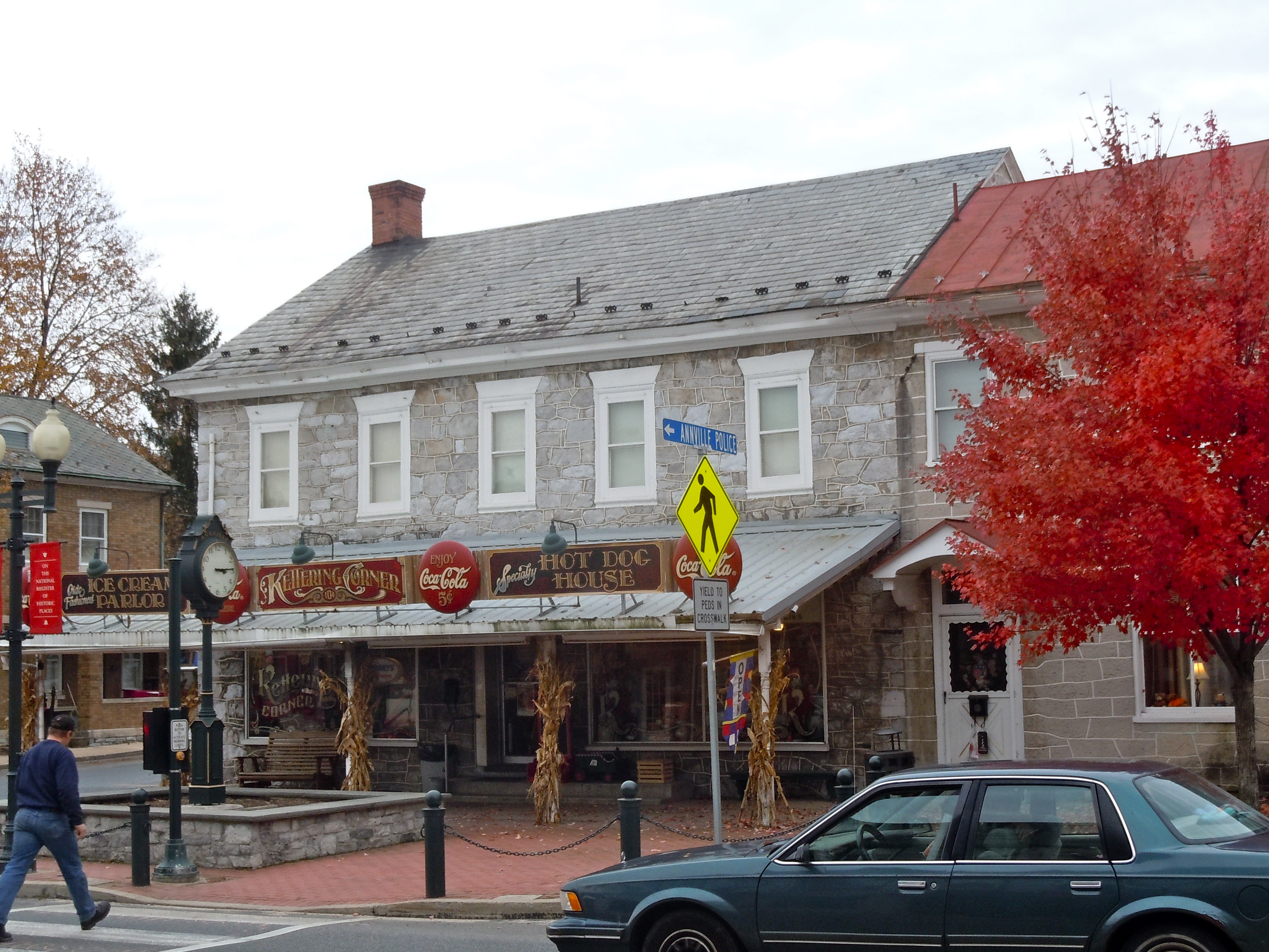 Building in Annville Historic District on the NRHP since April 30, 1979. The historic district is roughly bounded by the Quittapahilla Creek and Lebanon, Saylor, and Marshall Streets in Annville Township, Lebanon County, Pennsylvania. This building is at 104-106 West Main Street (US 422) and dates to 1780, known as Fleisher House and Livery. Now an ice cream parlor.